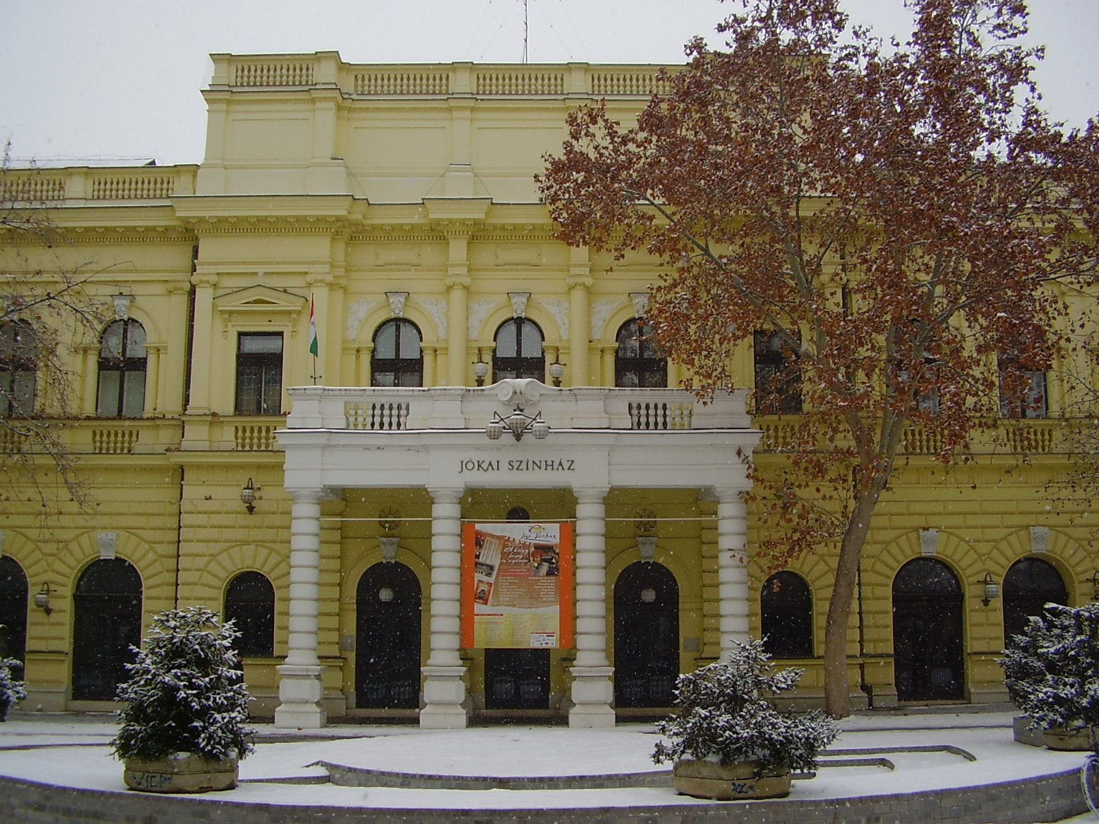 State-theatre "Jókai" in Békéscsaba, Hungary